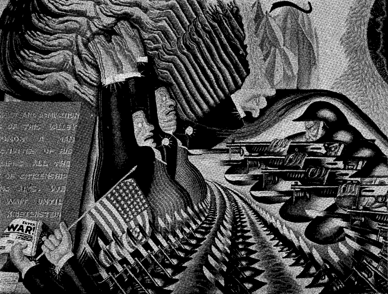 A segment of the machine mural, showing soldiers of four races with their bayonets turned on munition profiteers. In a frenzy of patriotic exhortation, a bejeweled hand clutches a flag which is partially ripped from its staff.